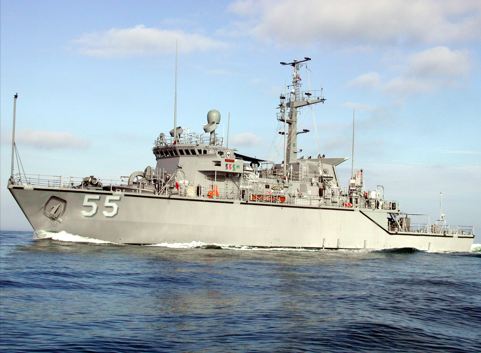 At sea with USS Oriole (MHC 55) Mar. 10, 2003 -- The Oriole, a mine hunter-killer ship, is capable of finding, identifying, and destroying various types of bottom and moored mines. Homeported at Ingleside, Tex., the Oriole and other ships of her class are designed to operate from bases along the shores of the continental United States. U.S. Navy photo by Lt. Cmdr. Richard Dodson. (RELEASED)